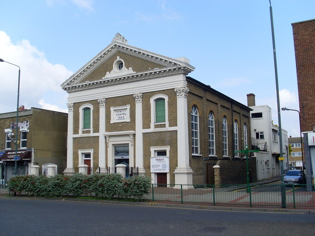 Trinity Baptist Church, Bexleyheath Situated in Broadway at the corner with Trinity Place, this Church dates from 1868. Its postcode is DA6 7AY.